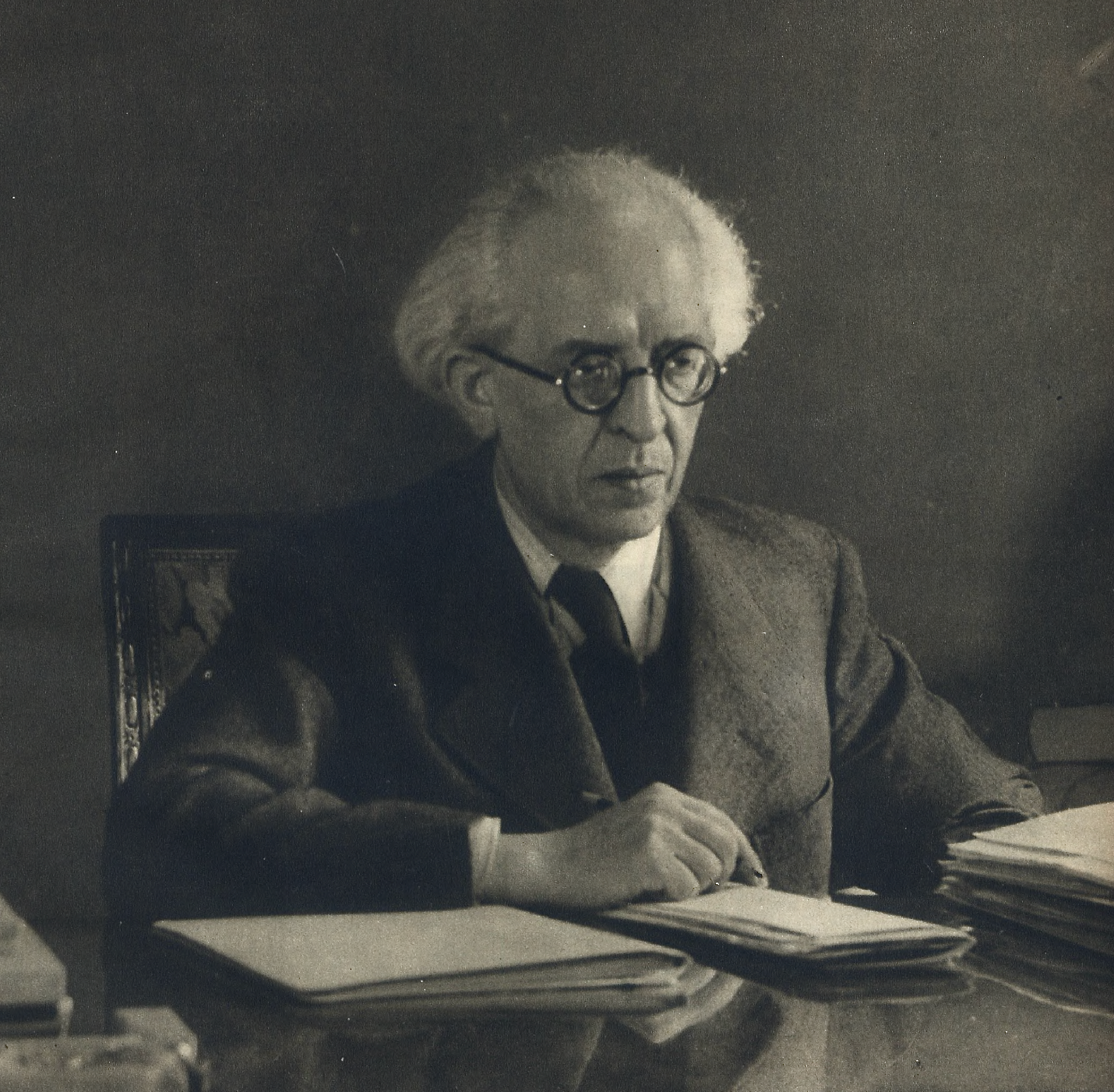 Picture of Tuka in 1941